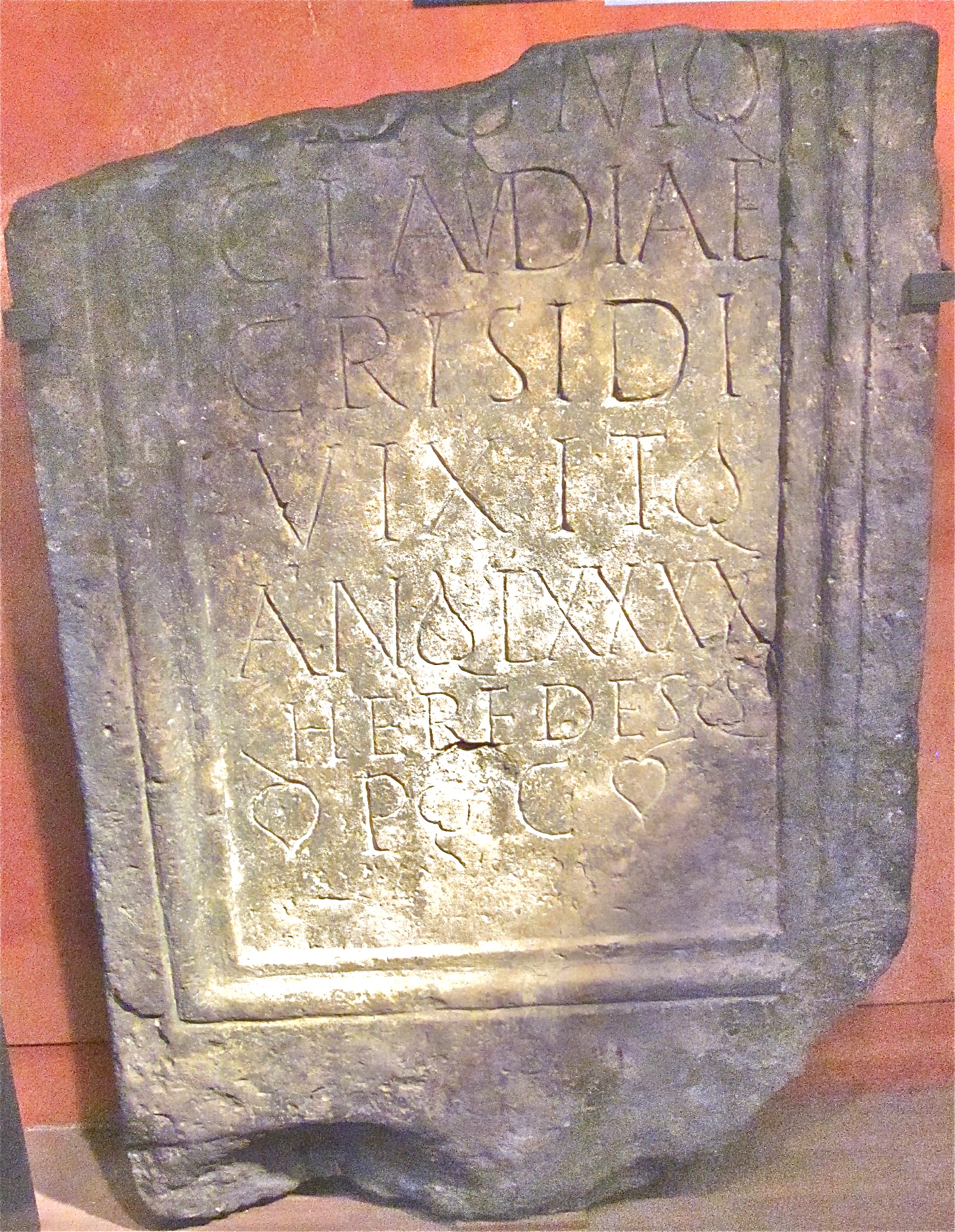 RIB 263 Tombstone of Claudia Crysis; she lived 90 years. Lincoln